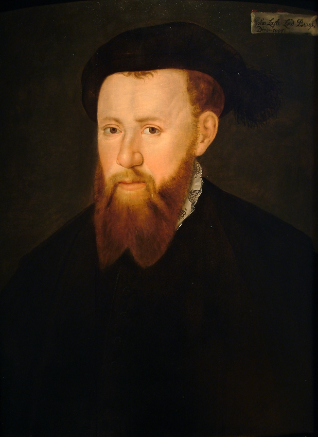 Caption from the Historical Portraits Image Library John Bray was an influential nobleman and soldier during the most turbulent years of the Tudor regime. The son of Reginald, 1st Lord Bray, he first came to prominence when commanding the forces sent to suppress ‘Kett’s rebellion’ of 1548, which, along with a series of uprisings across England over religion and enclosure, threatened the very foundations of Edward VI’s government. In 1553, after Edward’s death, Bray was one of twenty-six peers who signed letters patent handing the Crown to Lady Jane Grey. Unsurprisingly, Bray was particularly mistrusted by Queen Mary, and lost valuable lands as a result. In 1556 he loudly declared that he wished Elizabeth, Mary’s sister, was on the throne instead, for ‘he should have his lands and debts given him again, which he both wished for and trusted once to see.’ For this personal insult to Mary Bray was imprisoned in the Tower of London for a year, and for some time lived under the threat of execution. Mary in the end relented, being persuaded by Bray’s wife, Anne, daughter of the 5th Earl of Shrewsbury, that he should be spared. Mary could not, however, resist remarking that ‘God sent oft-times to good women evil husbands.’ Bray in fact repaid Mary’s mercy with interest – in 1557 he joined the siege of St Quentin, where he contracted a fatal fever. He died soon afterwards at his home in Blackfriars on 18th November at three o’clock in the afternoon. An account of his death and elaborate burial is recorded in great detail at the Royal College of Arms.